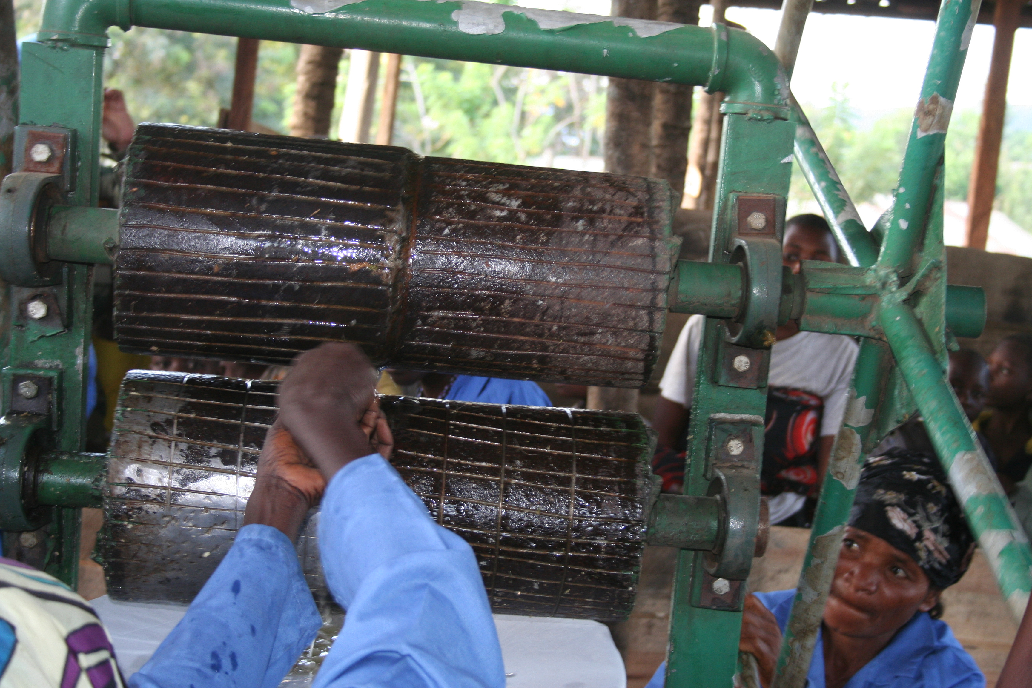 Women work at income generating project in Rutshuru. June 2009, Democratic Republic of Congo